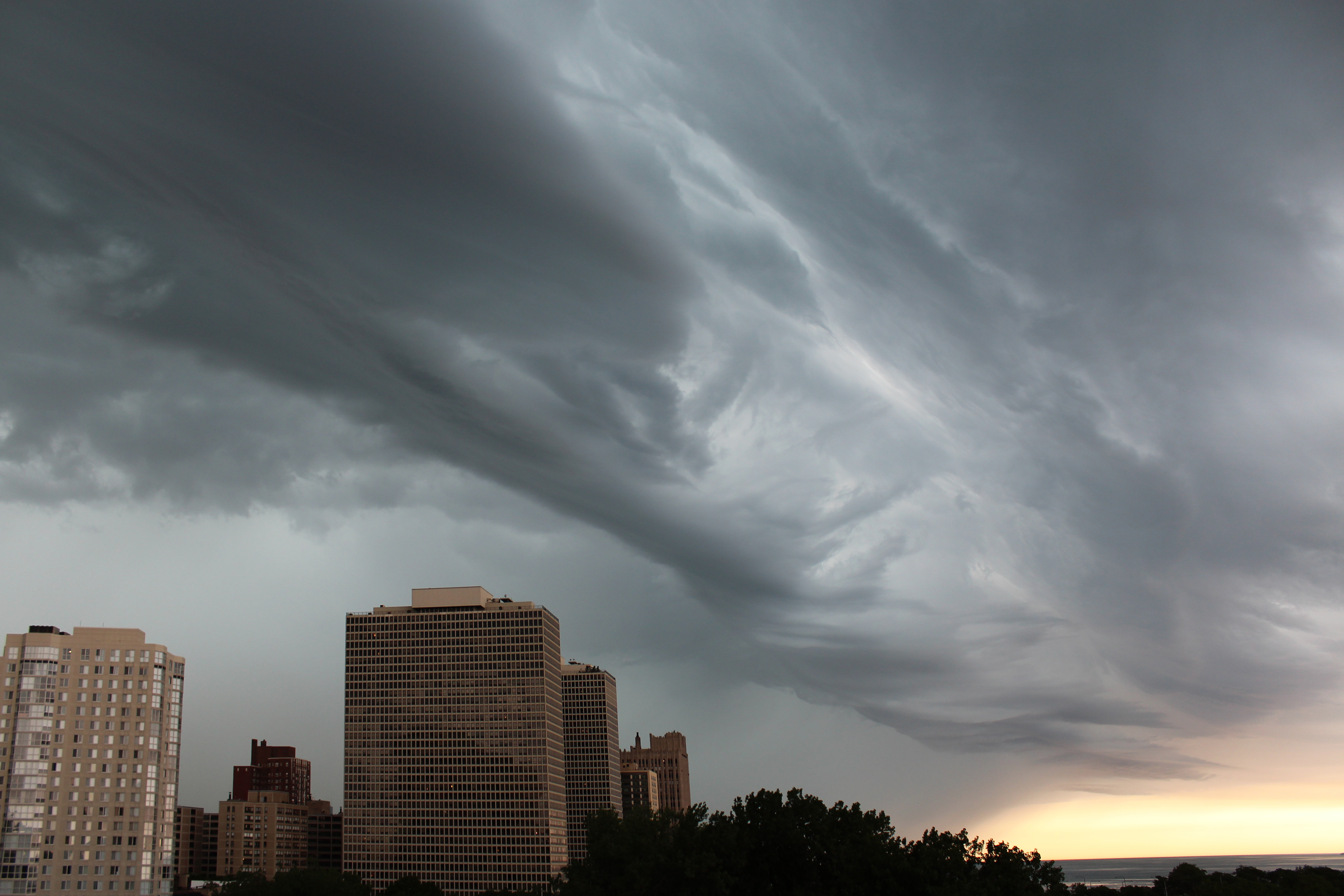 An atmospheric thermocline on the South Side of Chicago